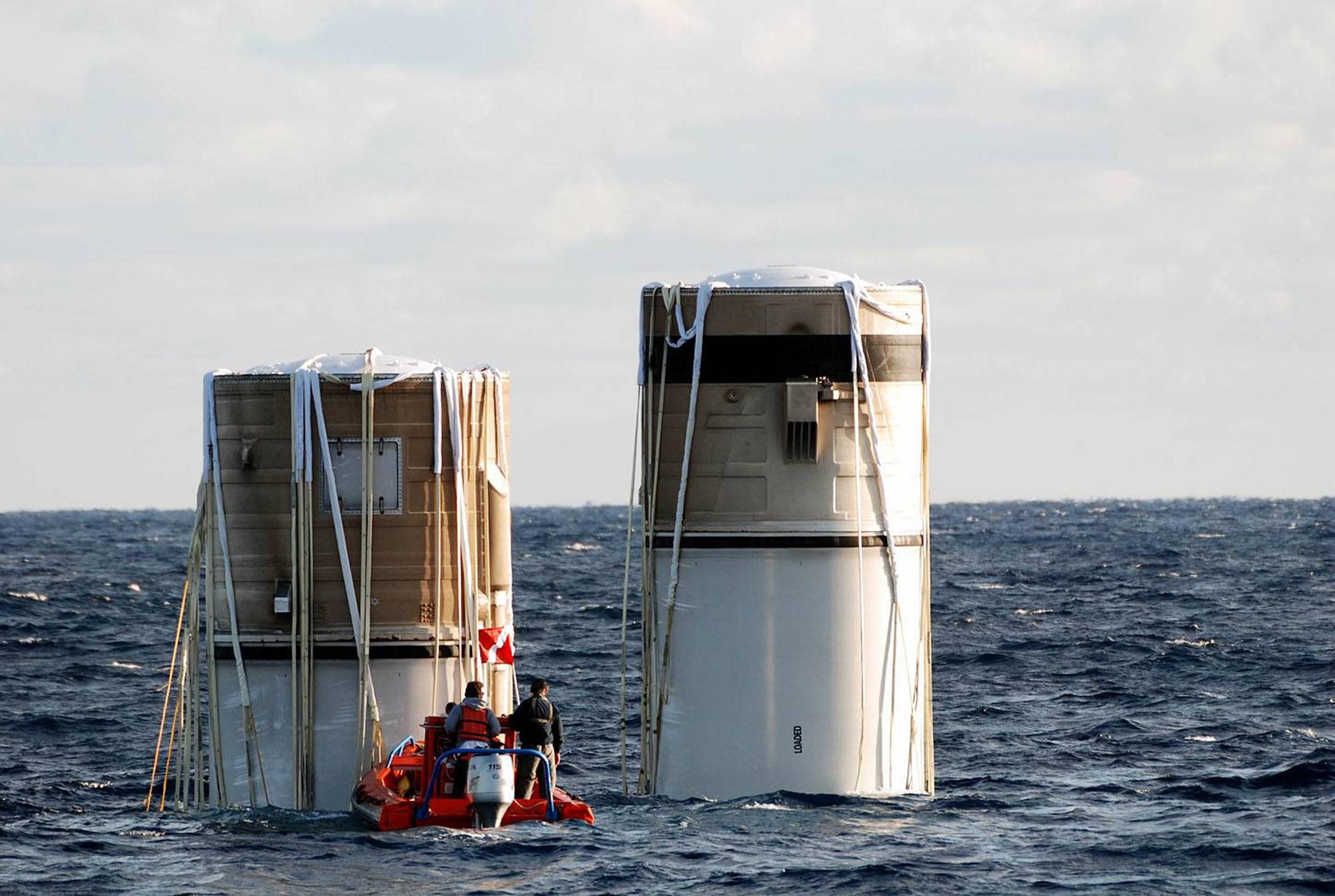 KENNEDY SPACE CENTER, FLA. -- Floating in the Atlantic Ocean about 150 miles north east of Cape Canaveral are the right and left solid rocket boosters, which were jettisoned from the Space Shuttle Discovery two and a half minutes into the ascent to orbit on Dec. 9, 2006. Though the boosters landed in the ocean miles from each other, overnight wind and ocean currents allowed the left booster, which was floating higher in the water, to migrate to the location of the right booster. The SRB retrieval team monitored the boosters through the night, and confirmed that the boosters did not contact each other. Both boosters were towed back to Hangar AF at the Cape Canaveral Air Force Station, where the refurbishment operations are now underway. Discovery lifted off from KSC's Launch Pad 39B at 8:47 p.m. EST on mission STS-116. For more information about the process of retrieval, go to and This was the second launch attempt for mission STS-116. The first launch attempt on Dec. 7 was postponed due a low cloud ceiling over Kennedy Space Center. This is Discovery's 33rd mission and the first night launch since 2002. The 20th shuttle mission to the International Space Station, STS-116 carries another truss segment, P5. It will serve as a spacer, mated to the P4 truss that was attached in September. After installing the P5, the crew will reconfigure and redistribute the power generated by two pairs of U.S. solar arrays. Landing is expected Dec. 21 at KSC.